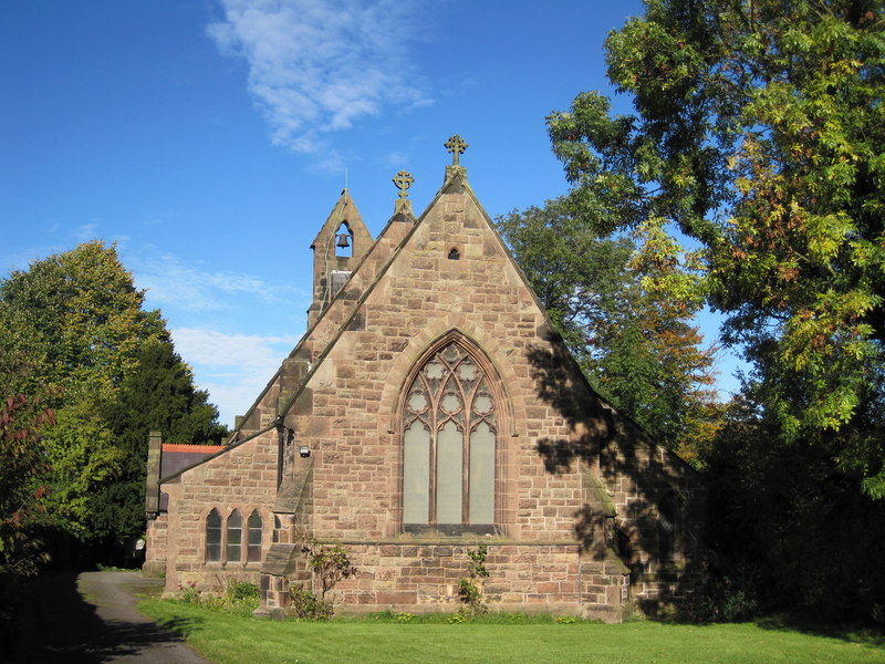 St Luke's parish church, Dunham-on-the-Hill, Cheshire, seen from the south